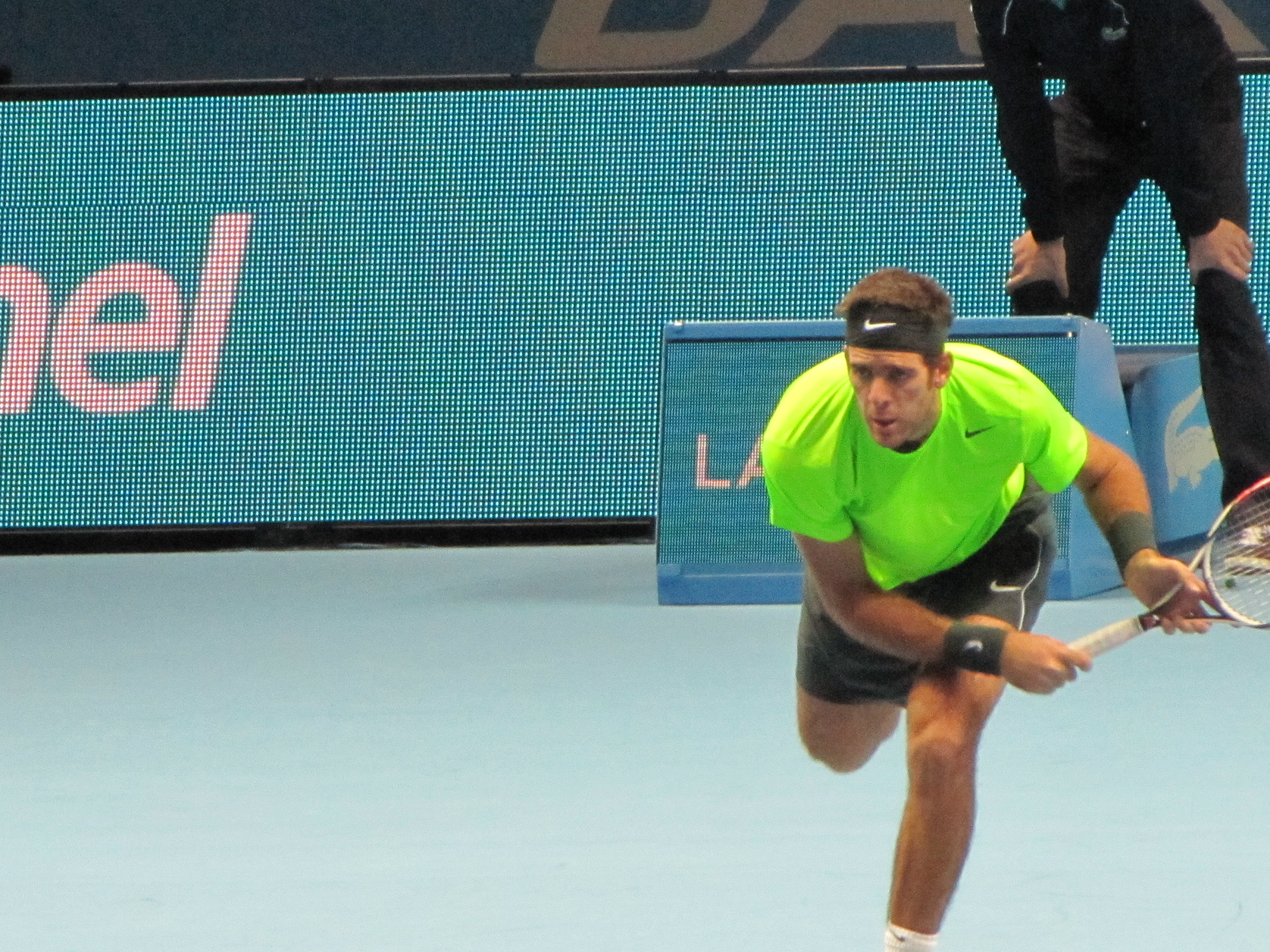 Roger Federer vs Juan Martín del Potro, in the 2012 APT World Tour Finals series at the O2 Arena.